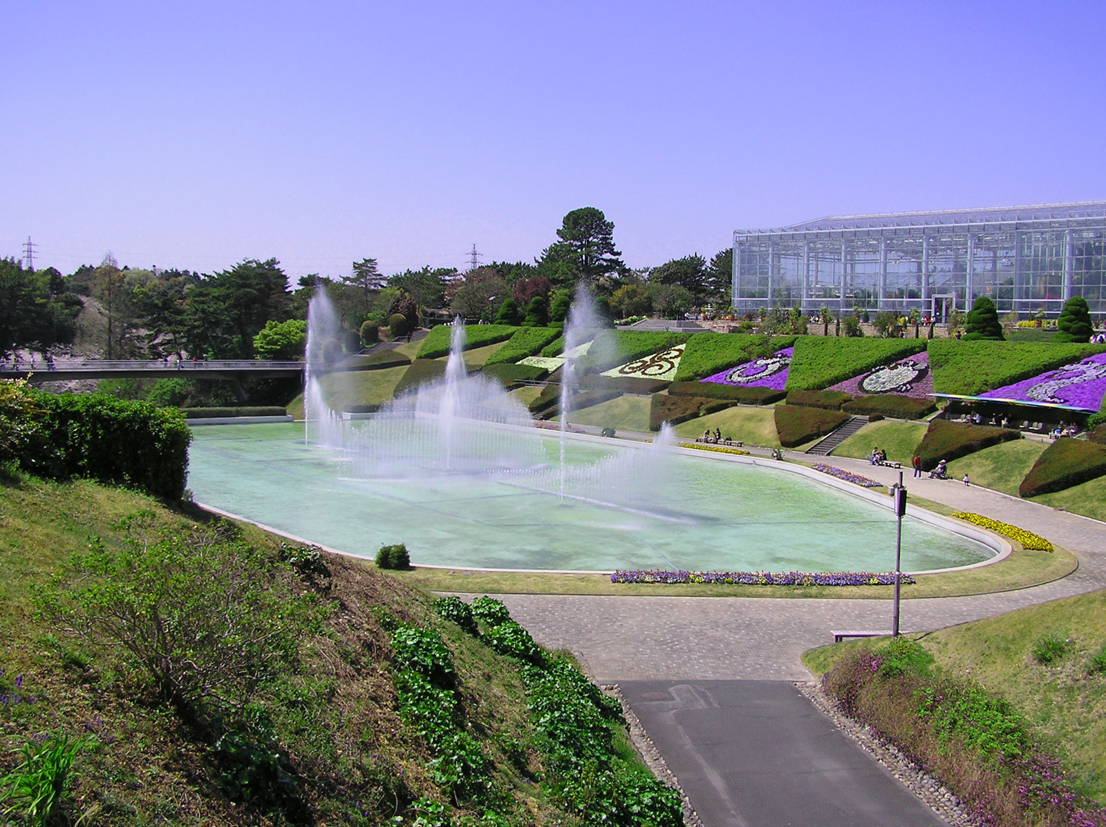 "Hamamatsu flower park" in Hamamatsu, Japan